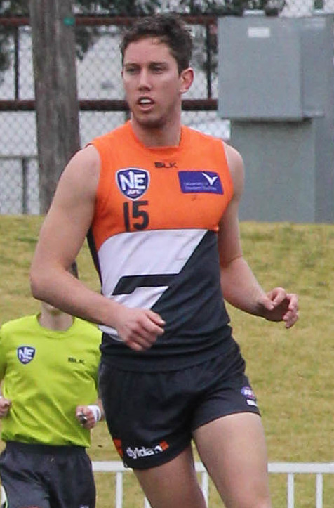 Curtly Hampton takes the ball during the UWS Giants vs. Eastlake NEAFL match at Robertson Oval on 1 August 2015.